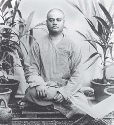 Swami Vivekannada in Madras 1897, after his first visit to the West.